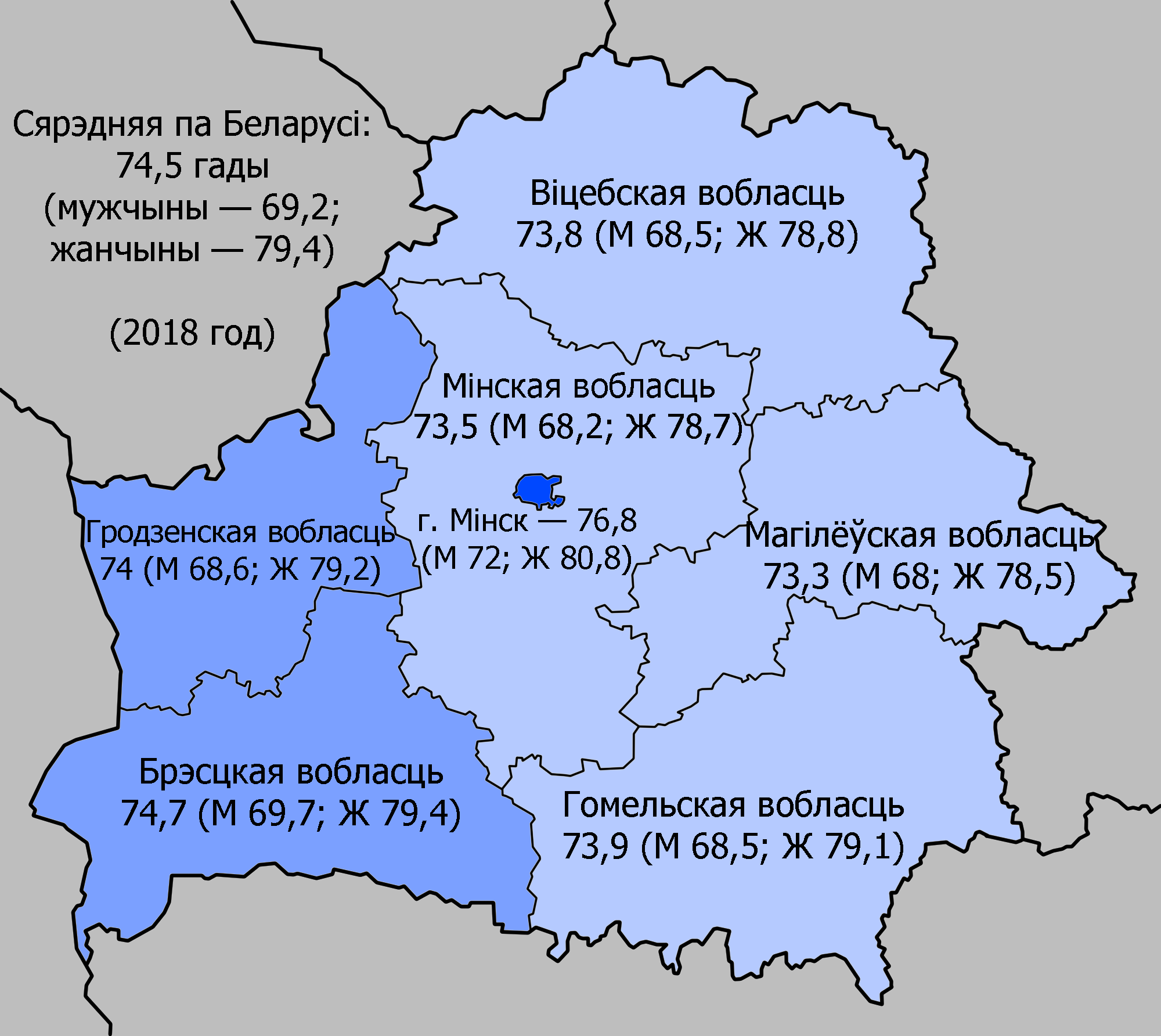 Average life expectancy at birth in Belarus (2018)